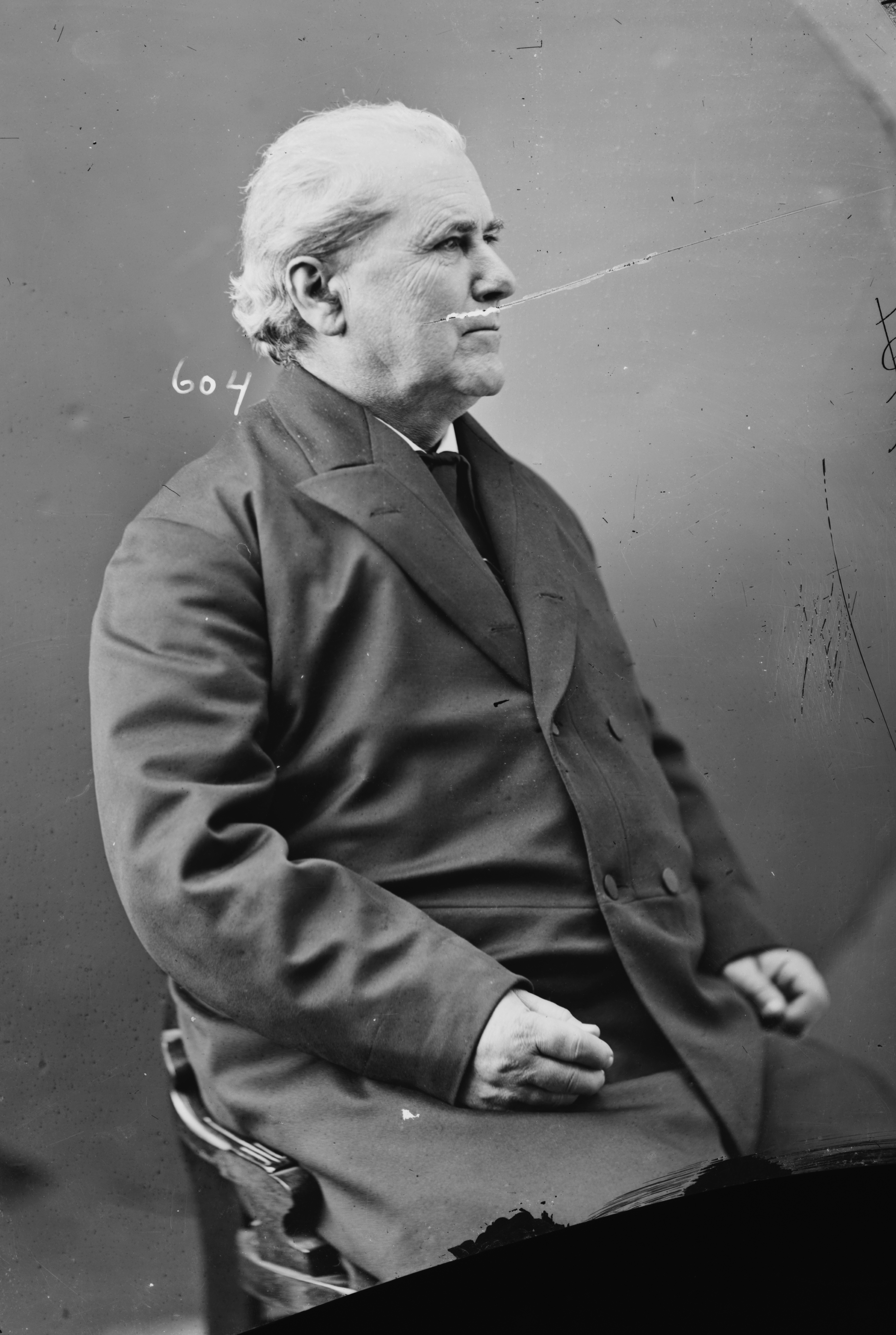 Closeup photograph of Rev. Charles H. Stonestreet, president of Georgetown University and Jesuit superior